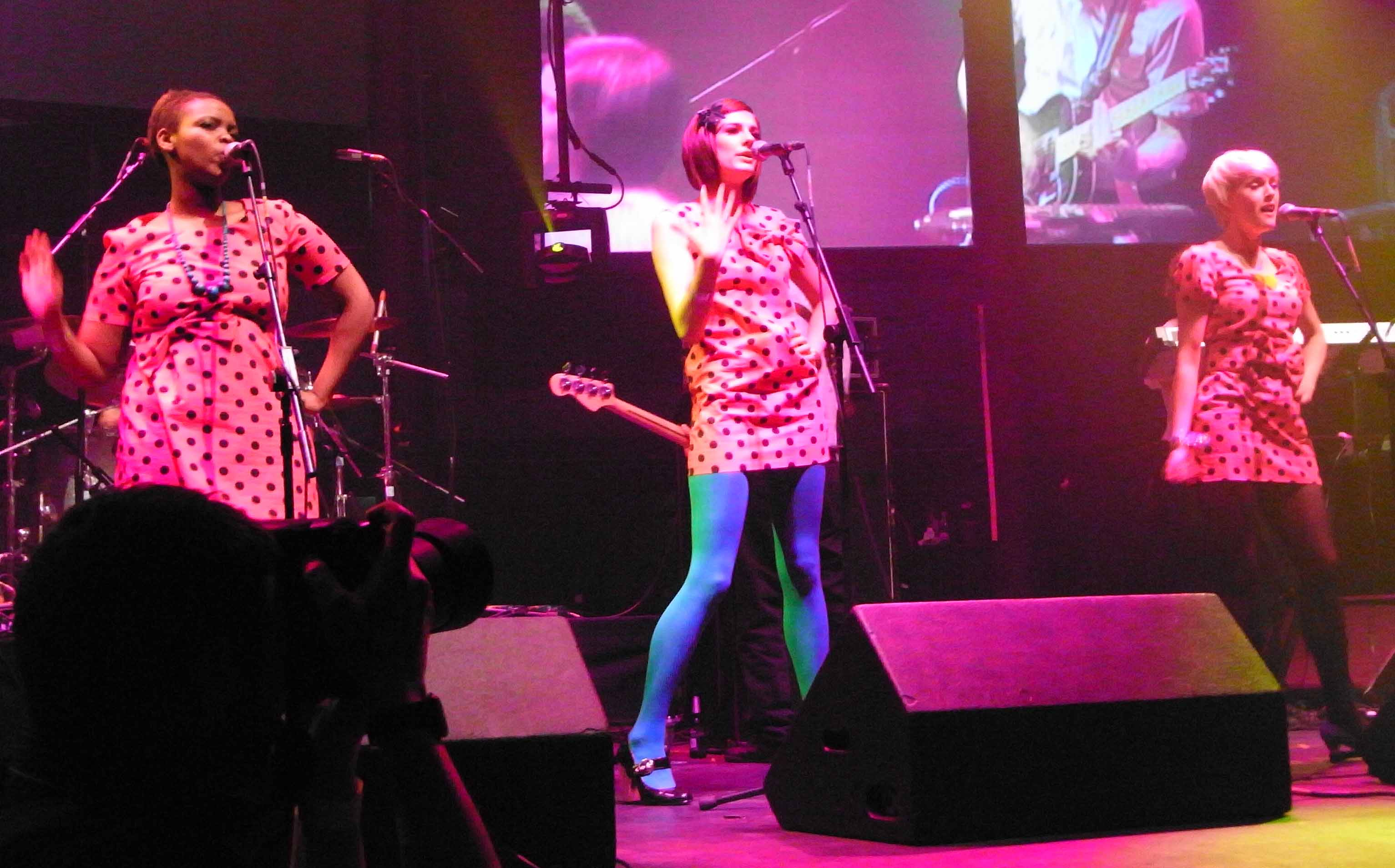 The Pipettes performing at Turning Point Festival at the Roundhouse in London in 2009.